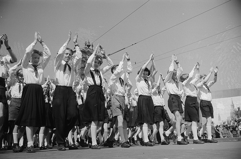 Original image description from the Deutsche Fotothek Demonstrationszug - Pioniere